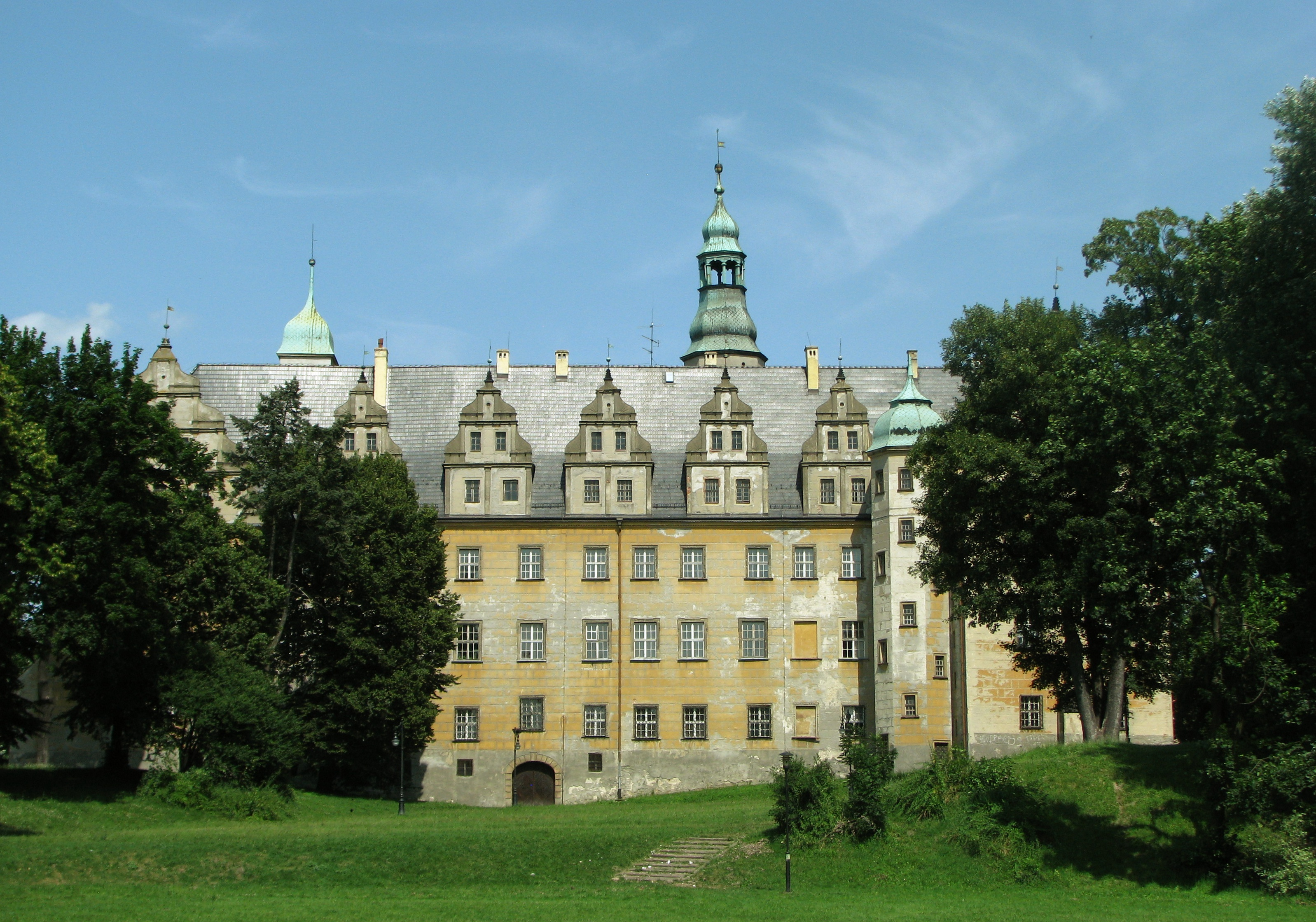 Oleśnica Castle.